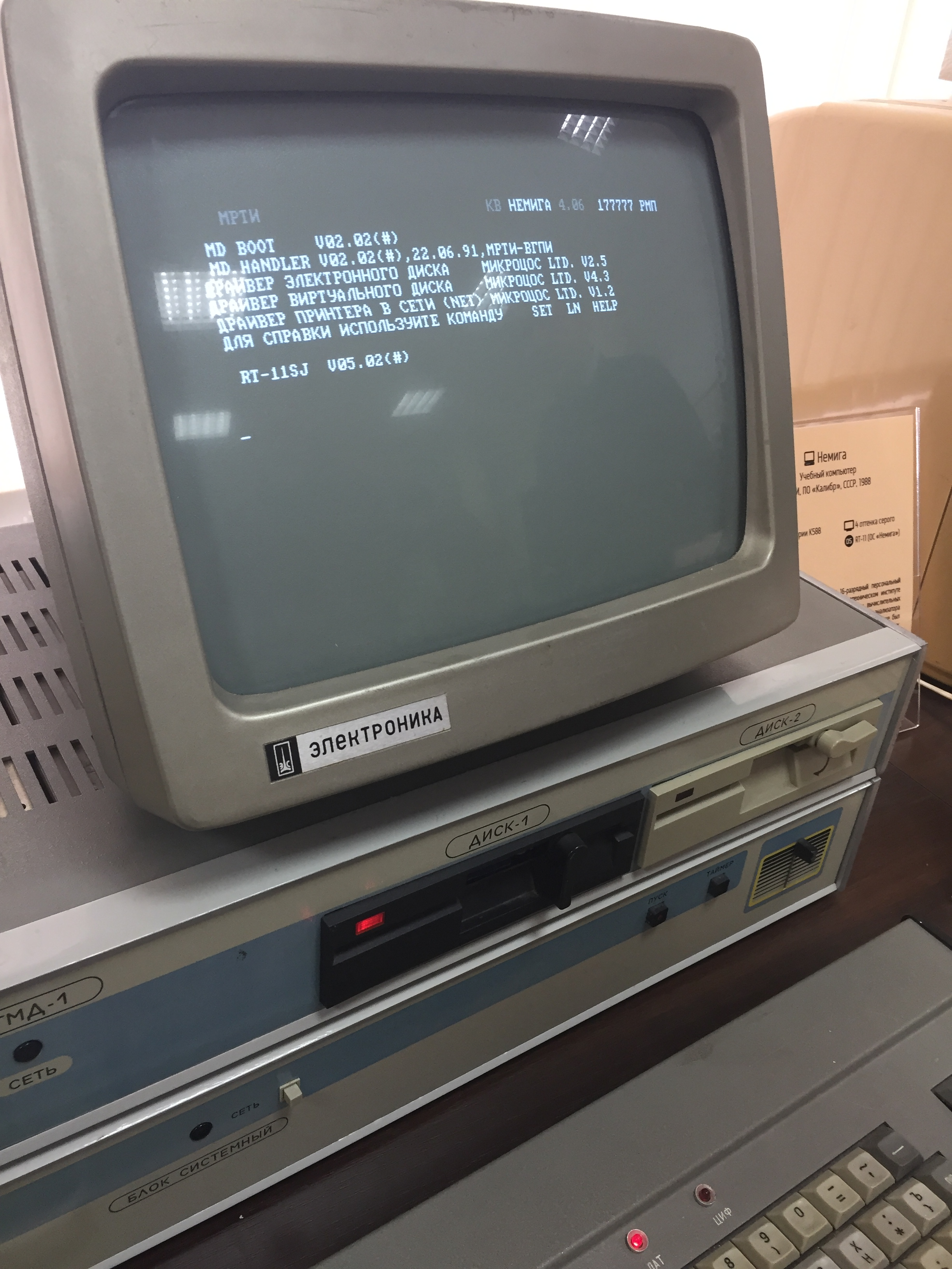 Nemiga PK588 computer loading